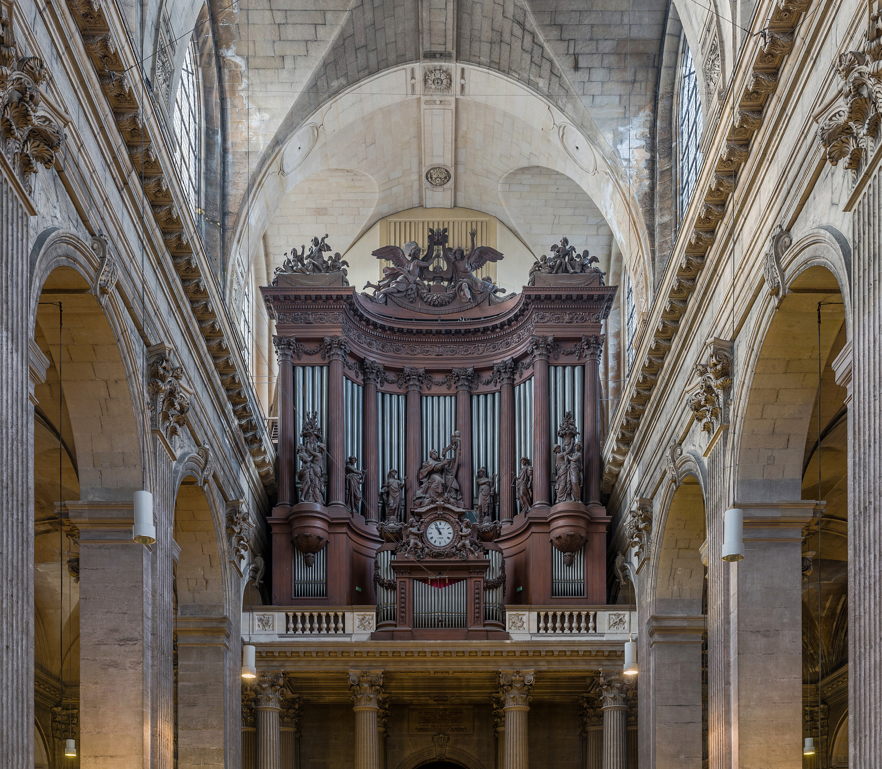 Pipe organ of Église Saint-Sulpice, Paris, France.